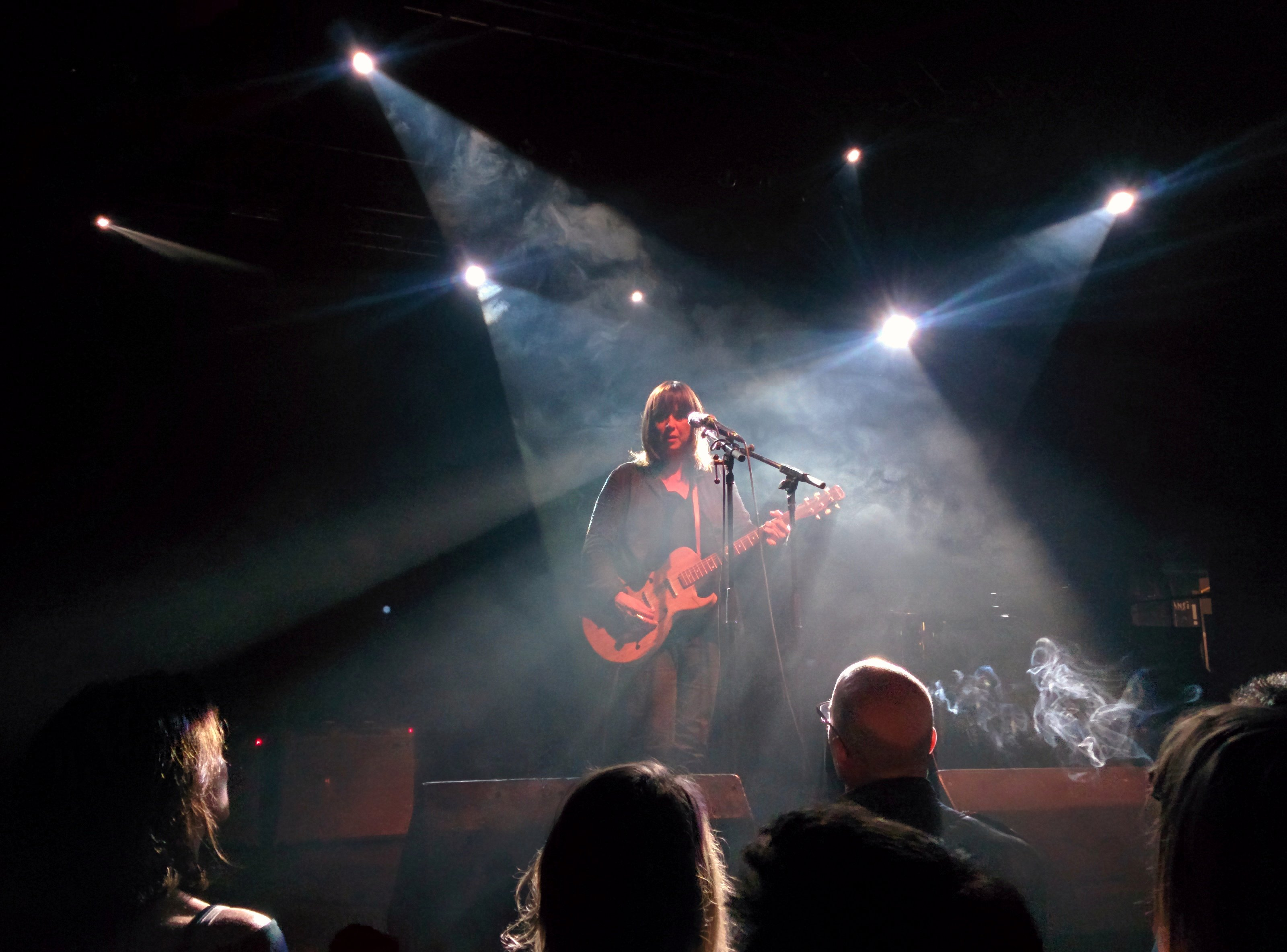 Cat Power Solo